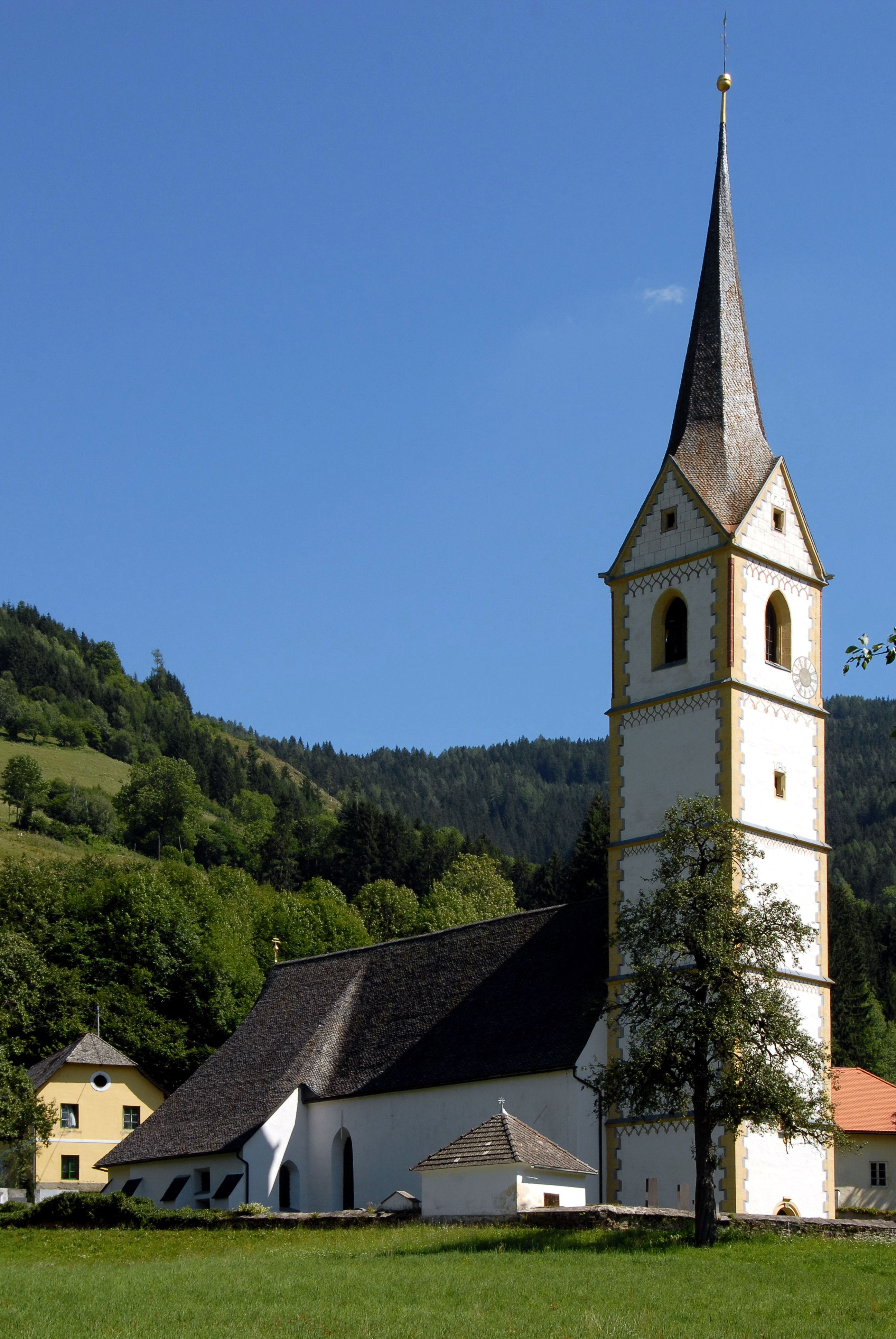 Parish church Saint Walburga at Sankt Walburgen, municipality Eberstein (Kärnten), district Saint Veit on the Glan, Carinthia / Austria / EU